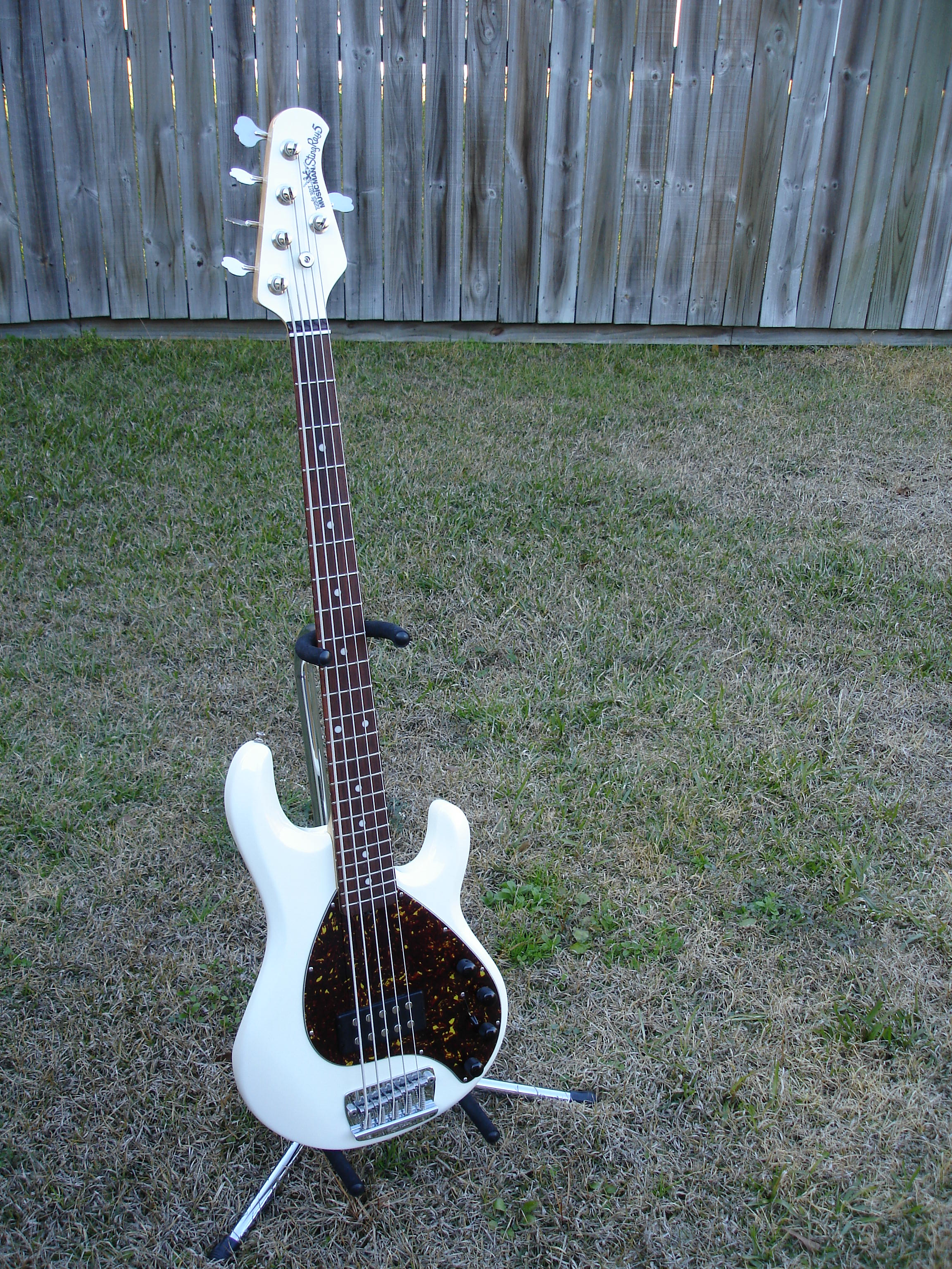 Ernie Ball Music Man Stingray 5 (SR5) built in 2005.